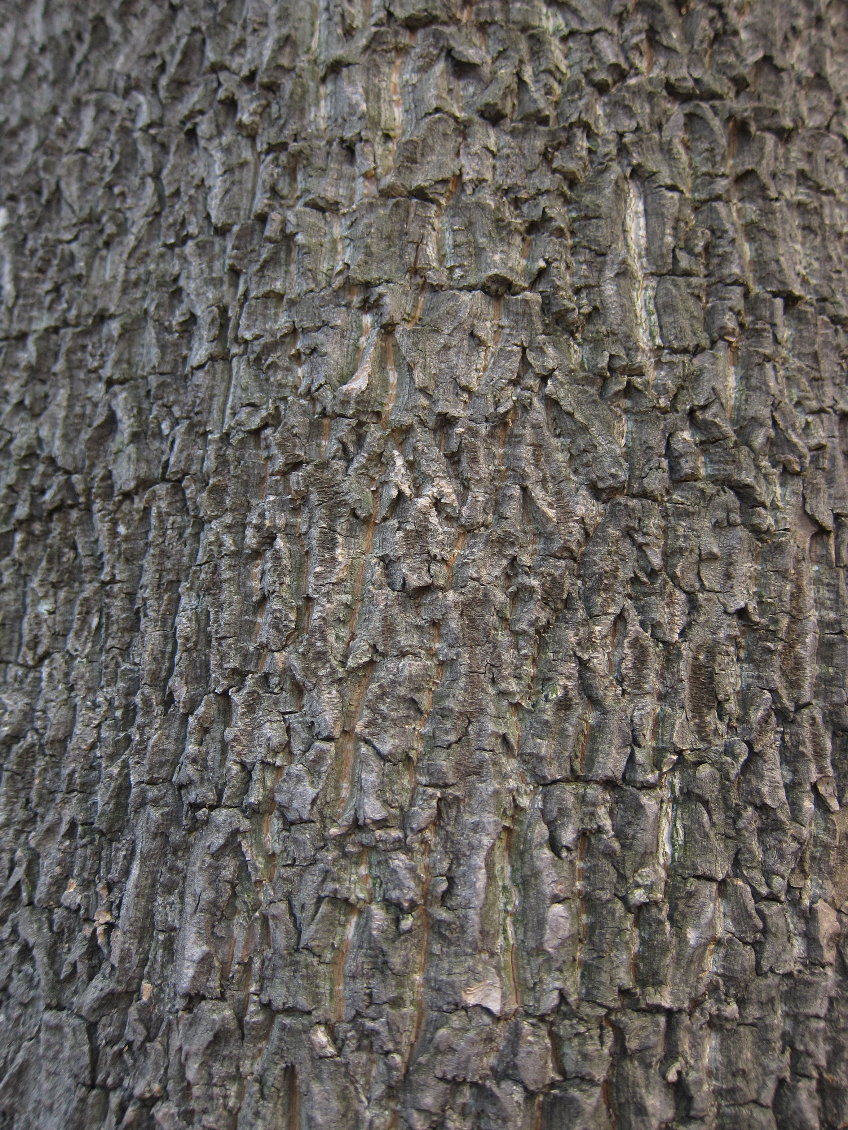 Bark of Alstonia scholaris taken in Siu Sai Wan.